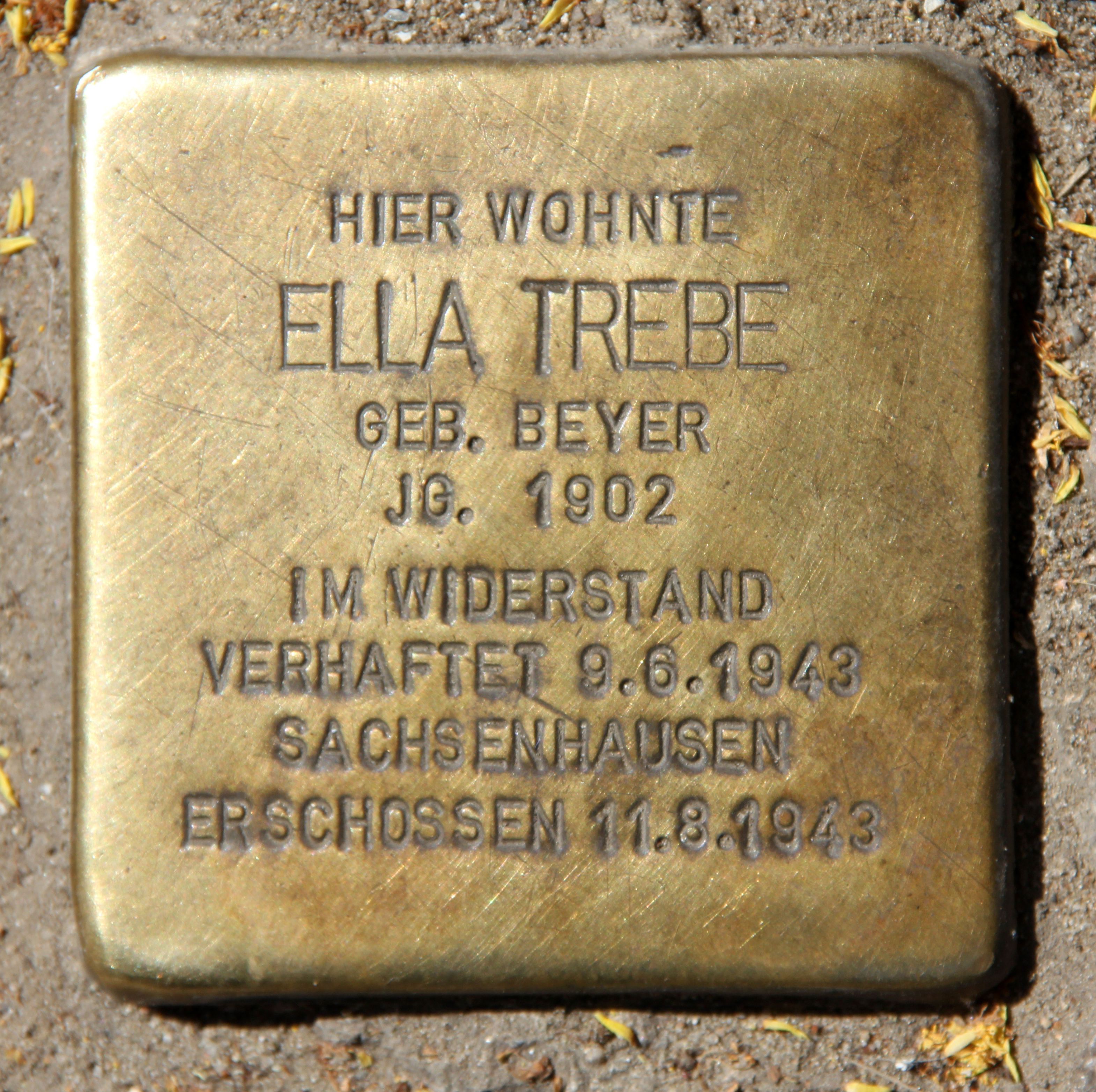 "Stolperstein" (stumbling block), Ella Trebe, Togostraße 78, Berlin-Wedding, Germany